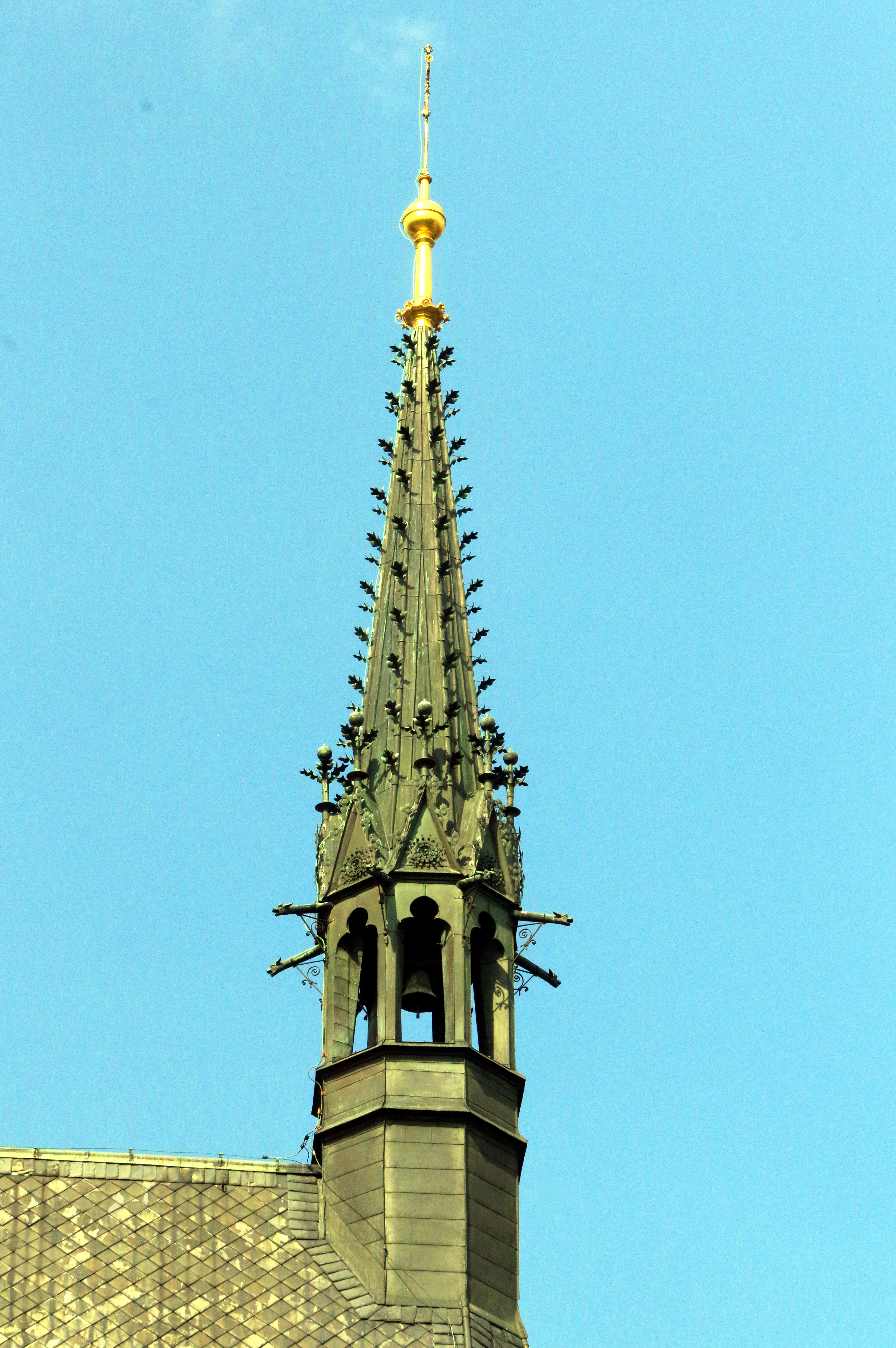 1.9.15 Vysehrad and VyseHratky